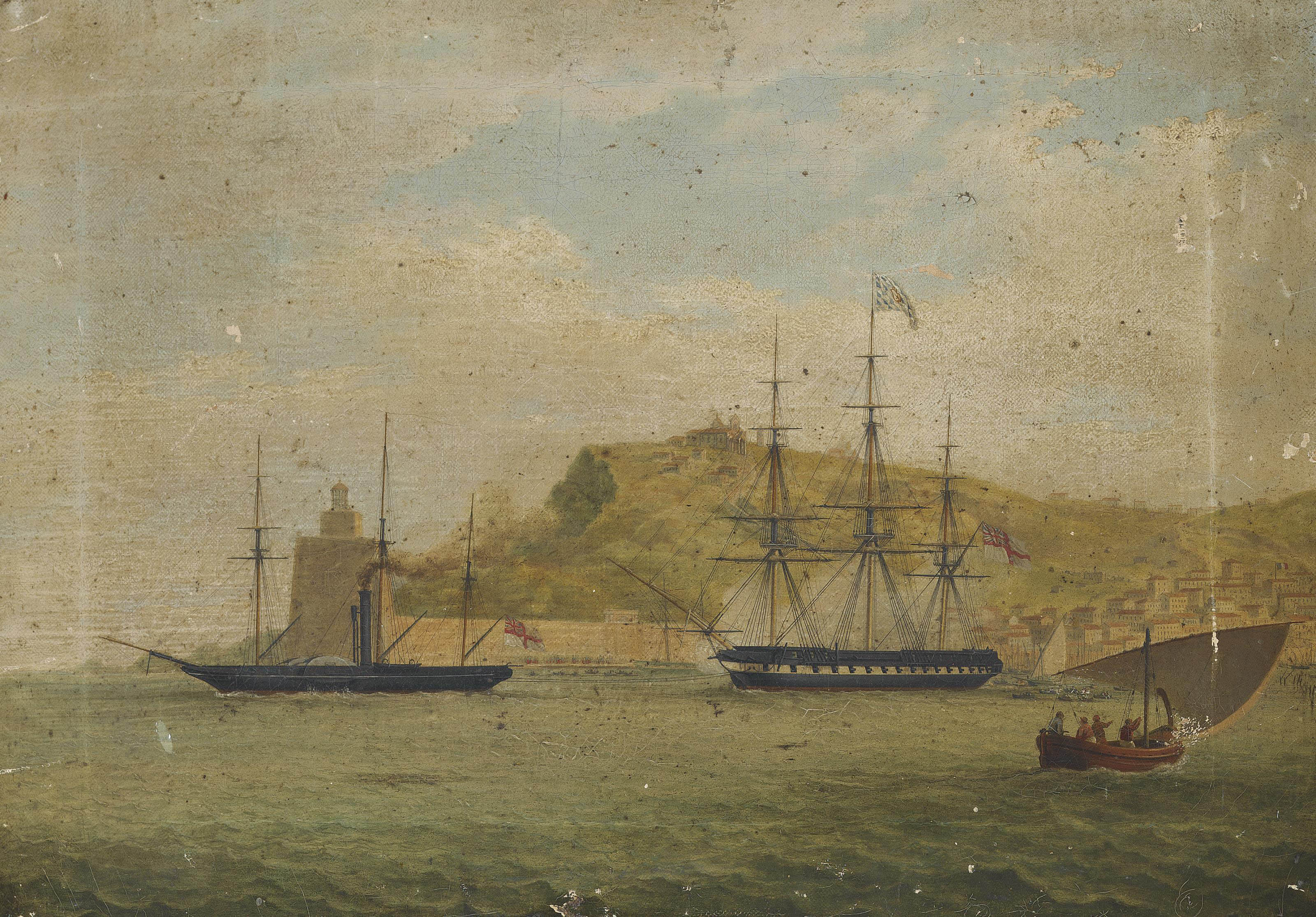 Paddle steamer HMS Salamander off la Torre de Hercules at the entrance to the harbour of La Coruña towing a British frigate, flying the flag of the Governor of the port, to sea, attributed to Joseph Schranz 35,6 x 48,3 cm. (14 x 19 in.)